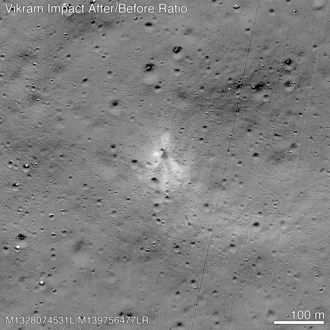 Before and after image ratio highlights changes to the surface, impact point is near center of image and stands out due the dark rays and bright outer halo. Note the dark streak and debris about 100 meters to the South South-East of the impact point. Diagonal straight lines are uncorrected background artifacts